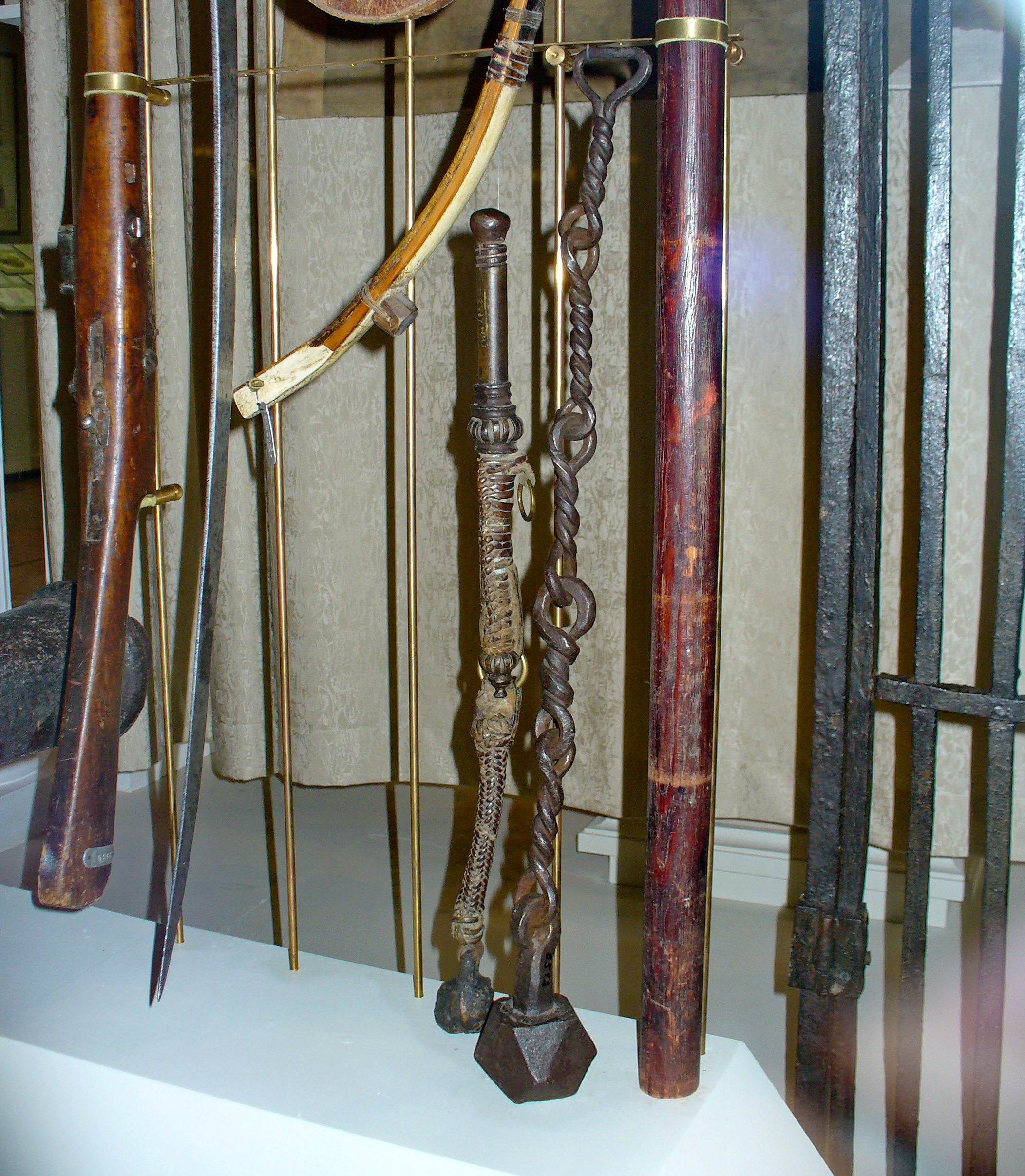 Military flails of russian insurgents, 18 century.